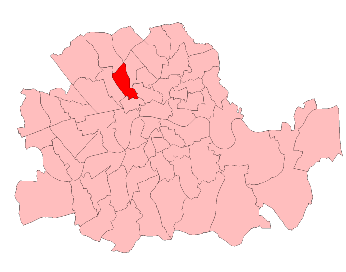 A map of St Pancras South East constituency within the London County Council area, as it existed from 1918 to 1949.